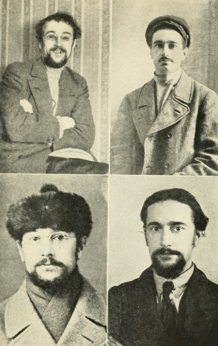 "The author as he appeared on various occasions in Soviet Russia. The top right hand photo was taken when in the Red army."